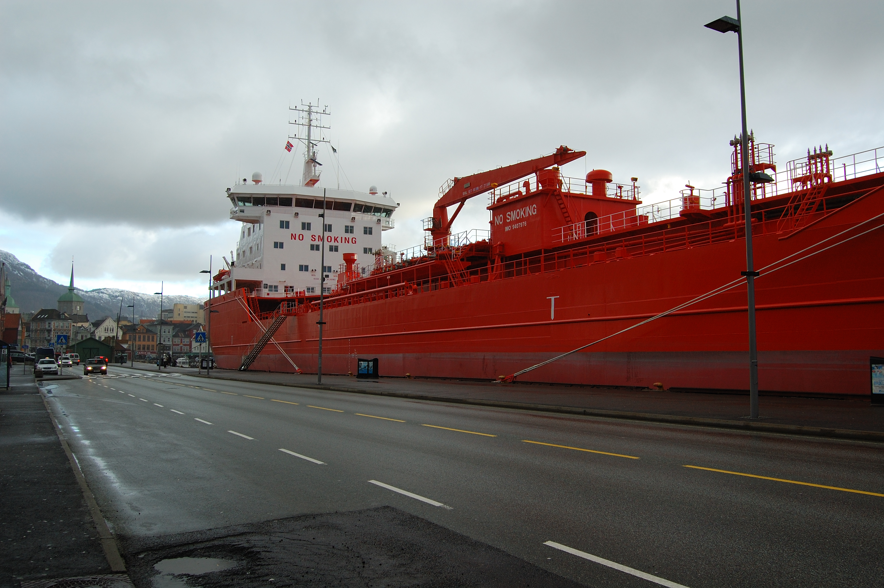 An oil tanker Sten Frigg moored next to the World heritage site of Bryggen in Bergen, Norway.